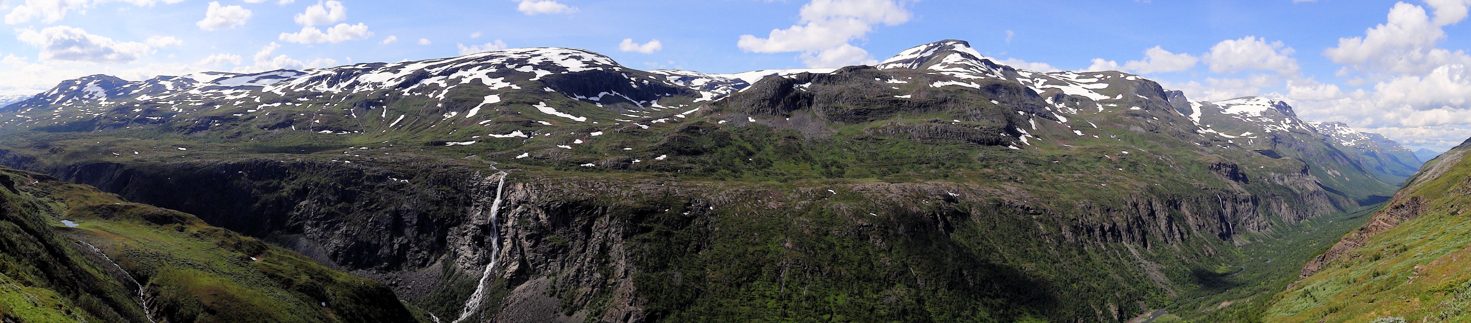 Taken from about midway down the Sørdalen canyon, this panorama shows several peaks in the Rohkunborri National Park. In the front on the left side is Stággonjunni. In the back you see, left to right, Njunis (in Sweden, the rest in Norway), Jalgesvárri, Riehppecohkka, Middagsaksla, Spiikaloapmi, Sørgårdstinden, Melhuskletten and Storfjellet.